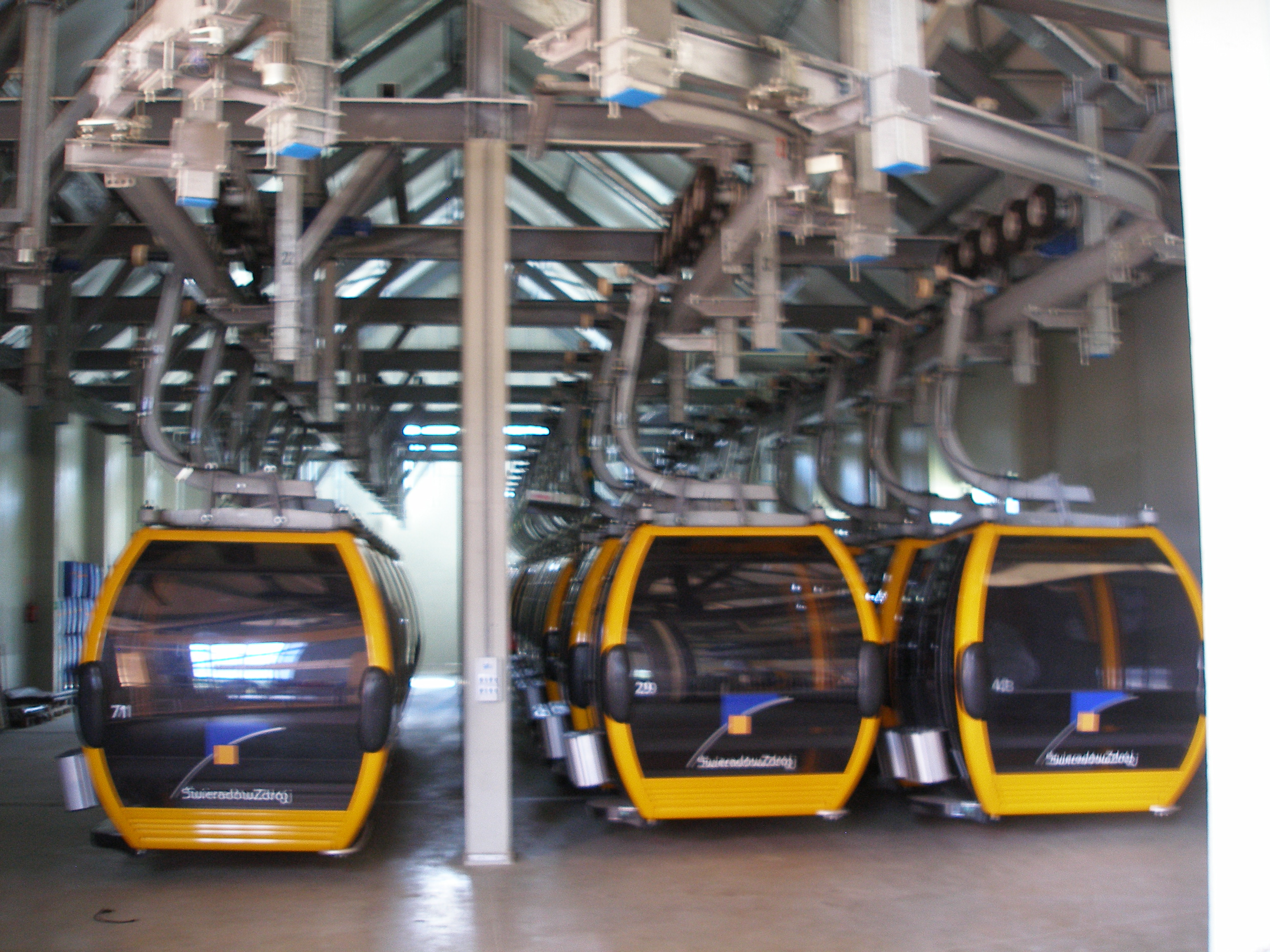 Canopy lift of cableway to Stóg Izerski, Poland.